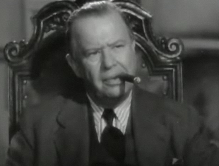 Cropped screenshot of Charles Coburn from the trailer for the American film Road to Singapore (1940).